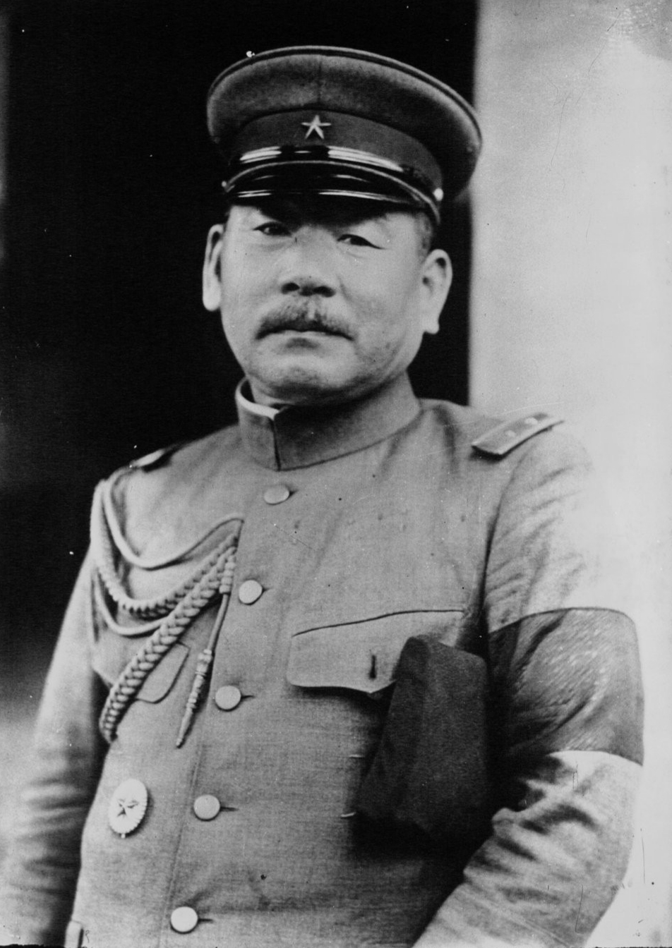 Japanese general Minami Jirō (1874-1955) as Minister of War in 1931.